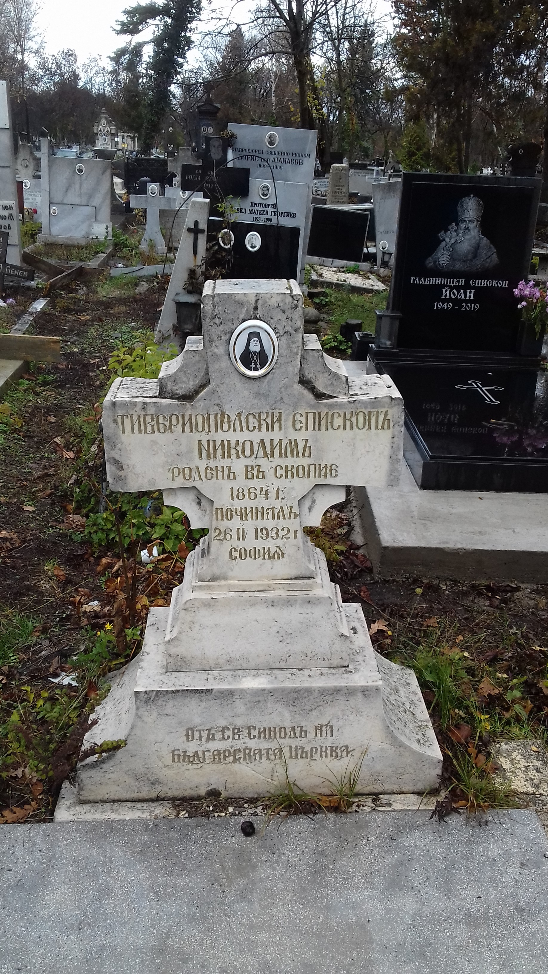 Nicodemus of Tiberiopolis Grave